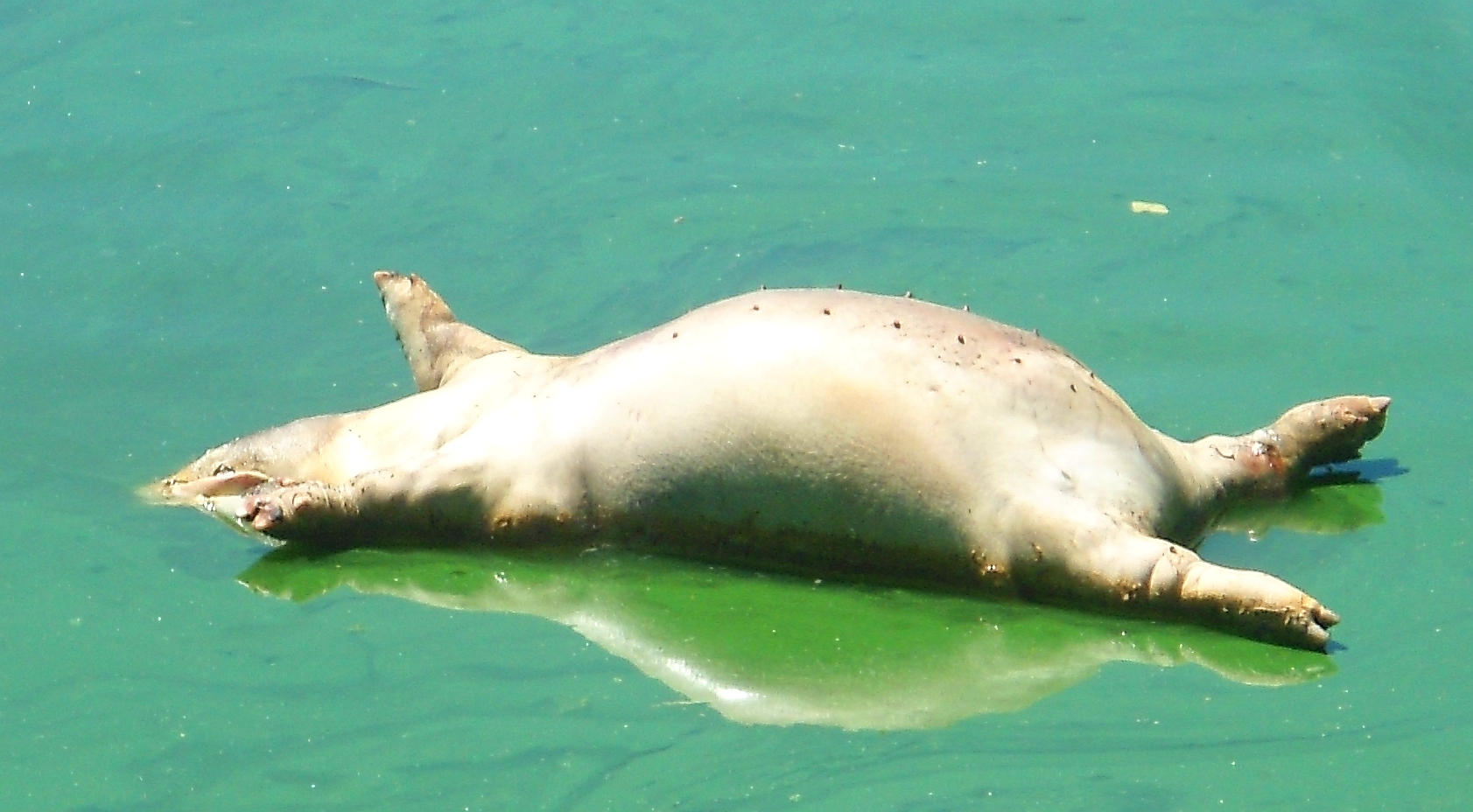 A dead pig floating in a small lake in Hainan, China.